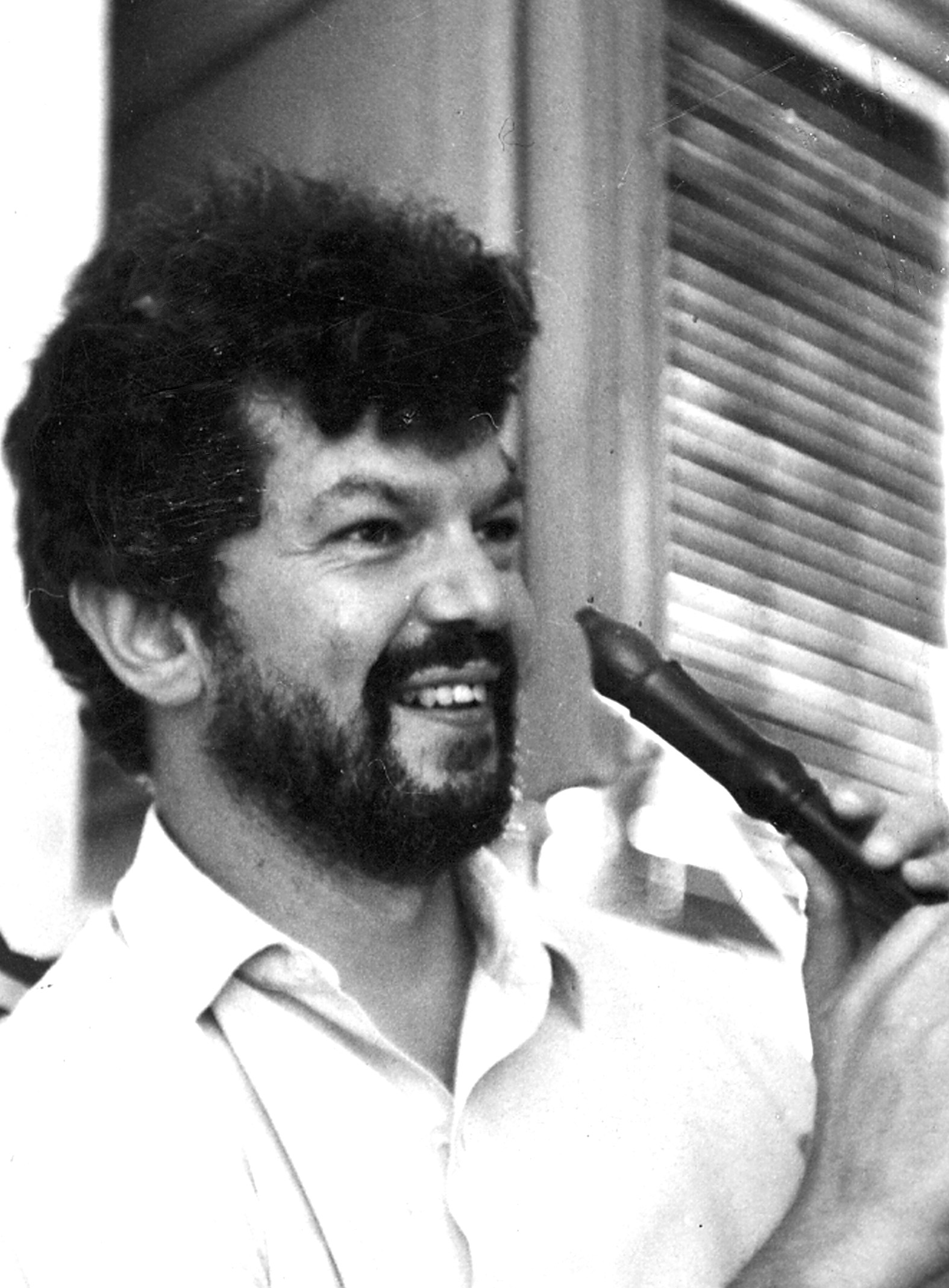 Robert Brout, physicist and professor emeritus at the Universite Libre de Bruxelles. He was awarded the Wolf Prize of physics in 2004. The image was given by himself on August 20 2007 with permission to use it.